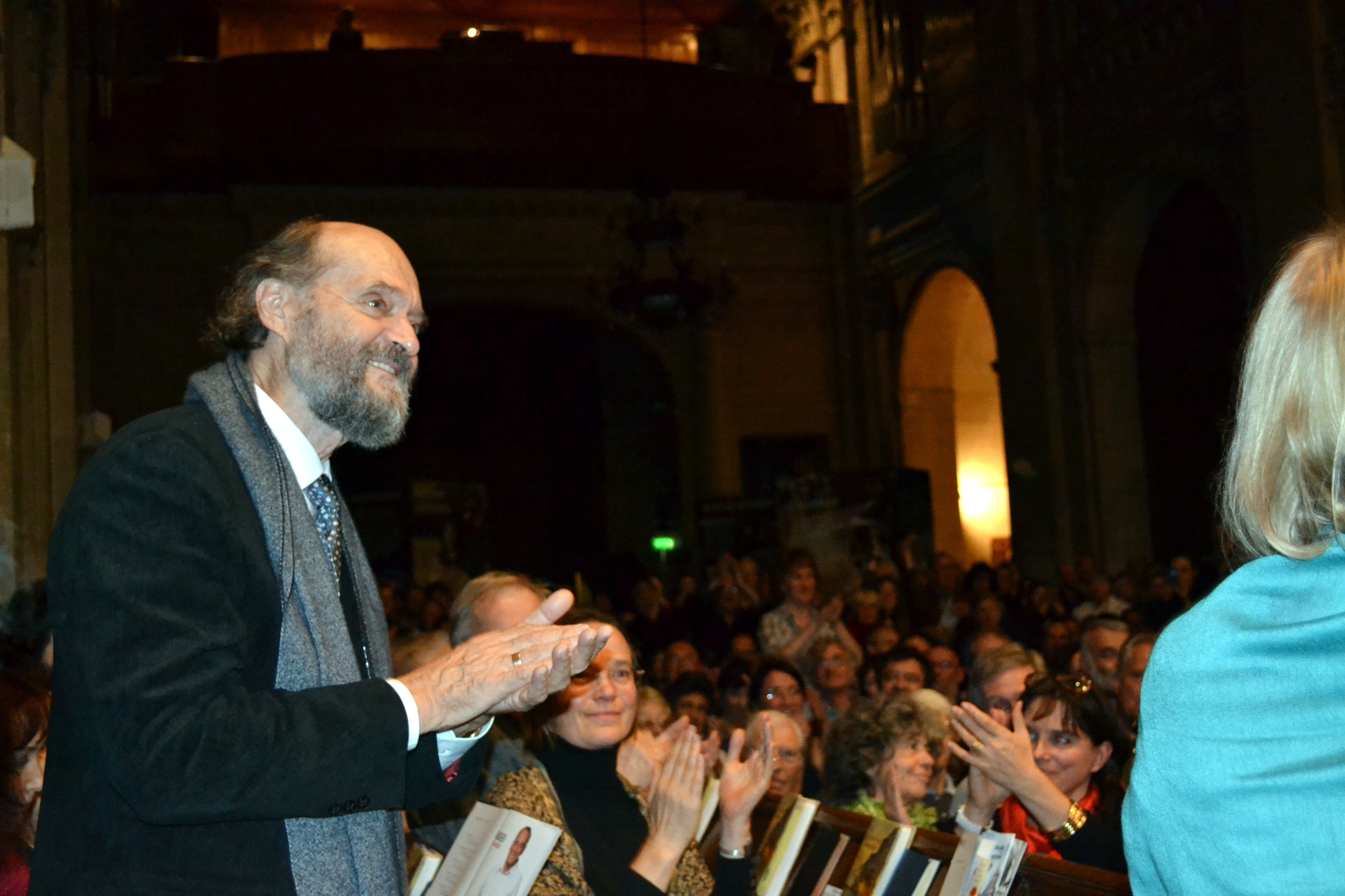 French Minister of Culture Frédéric Mitterrand presented Arvo Pärt with the highest decoration in France, Knight of the National Order of the Legion of Honour, 2 November 2011